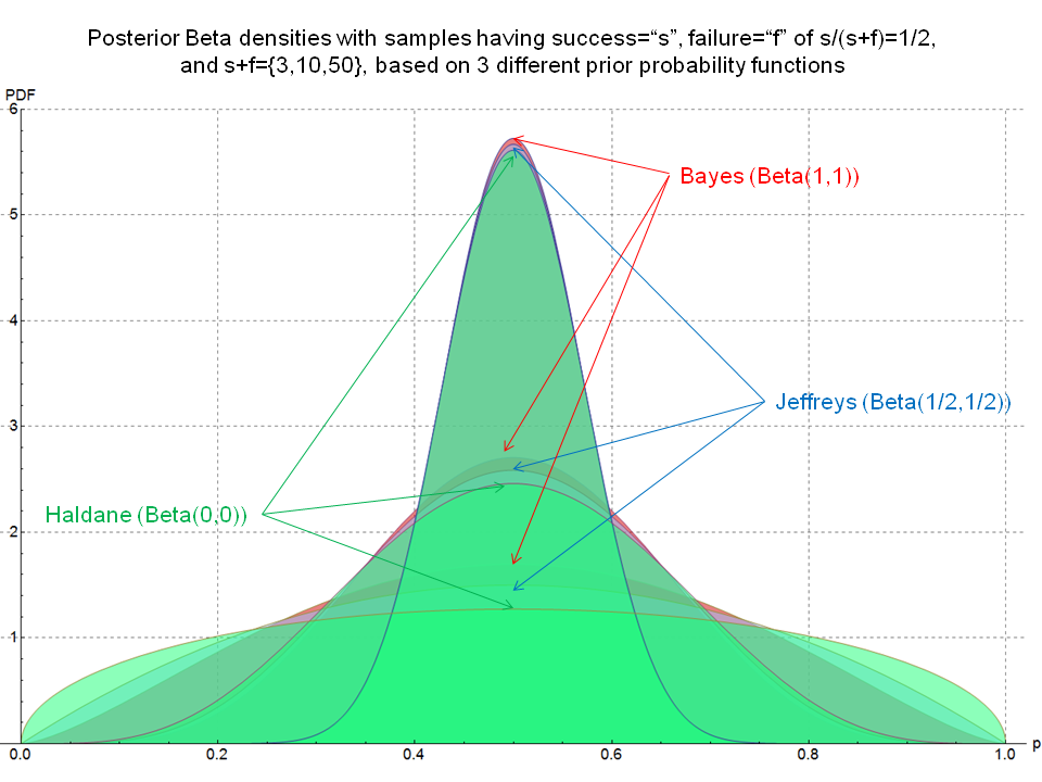 Beta distribution for 3 different prior probability functions - J. Rodal